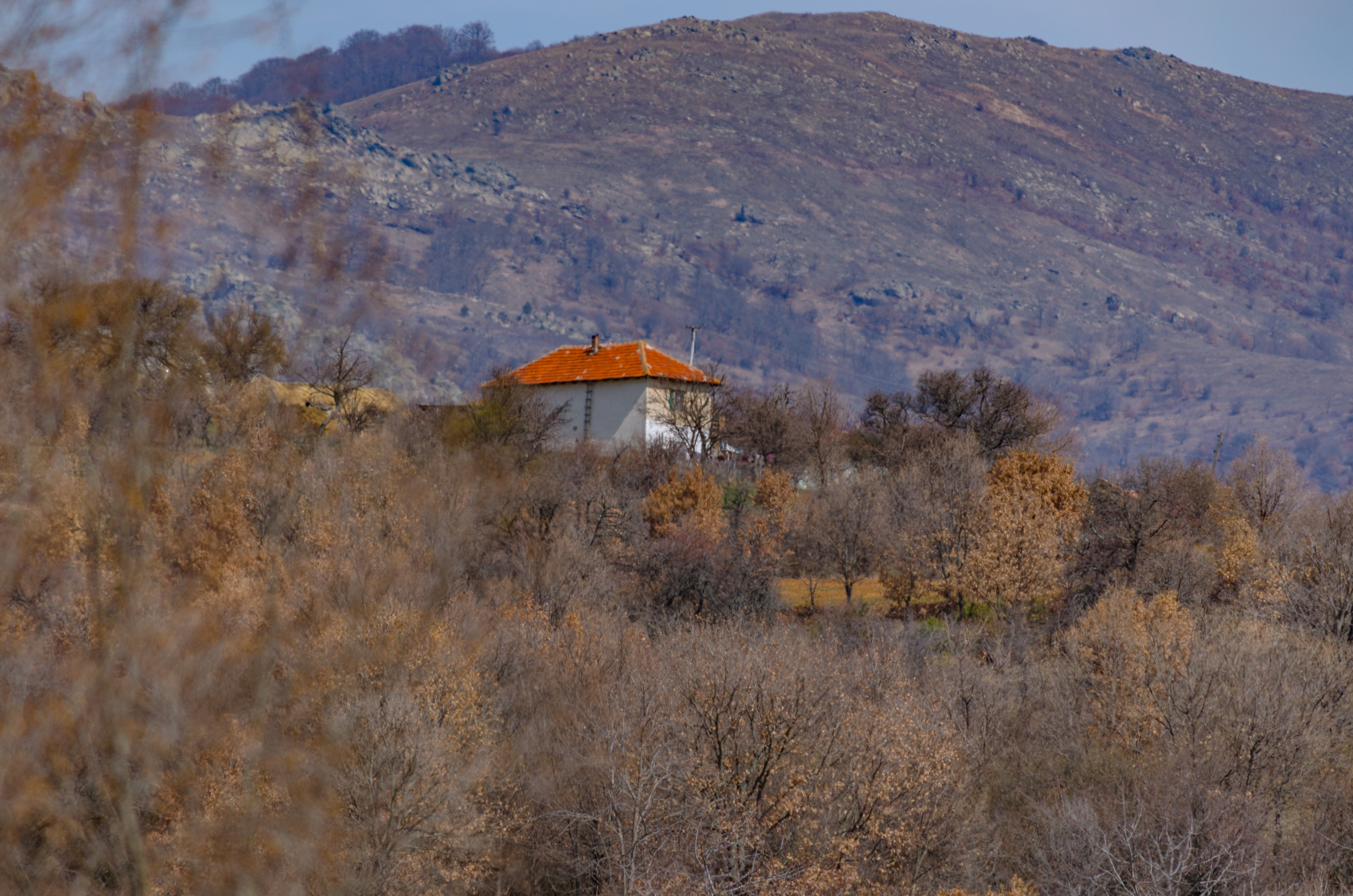 Karlovce, Staro Nagoricane